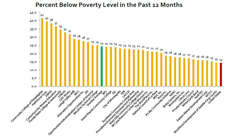 This graph shows Poverty Levels for the last 12 months in PUMAs served by POP grantees, according to estimates by the 2009 American Community Survey 1-Year estimates. For grantees that served more than one PUMA, poverty levels across all PUMAs served were averaged.